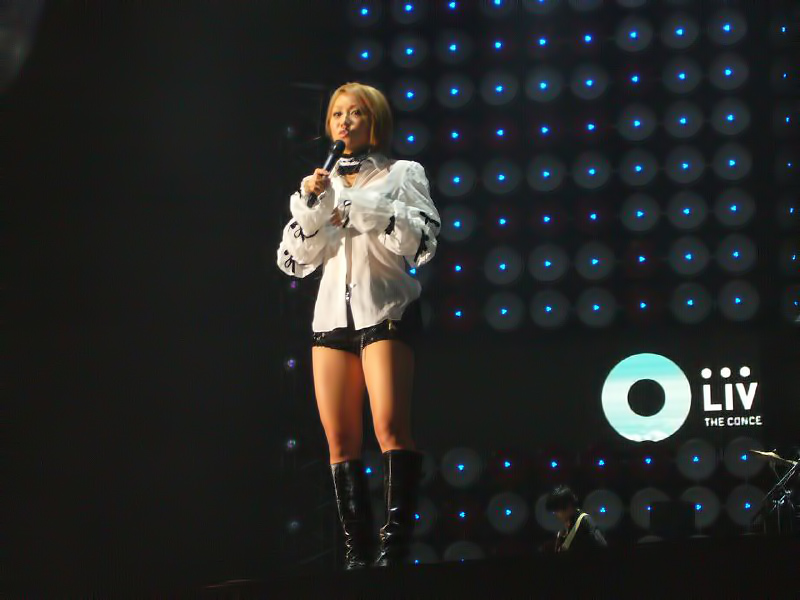 Koda Kumi performing at the Live Earth concert in Japan